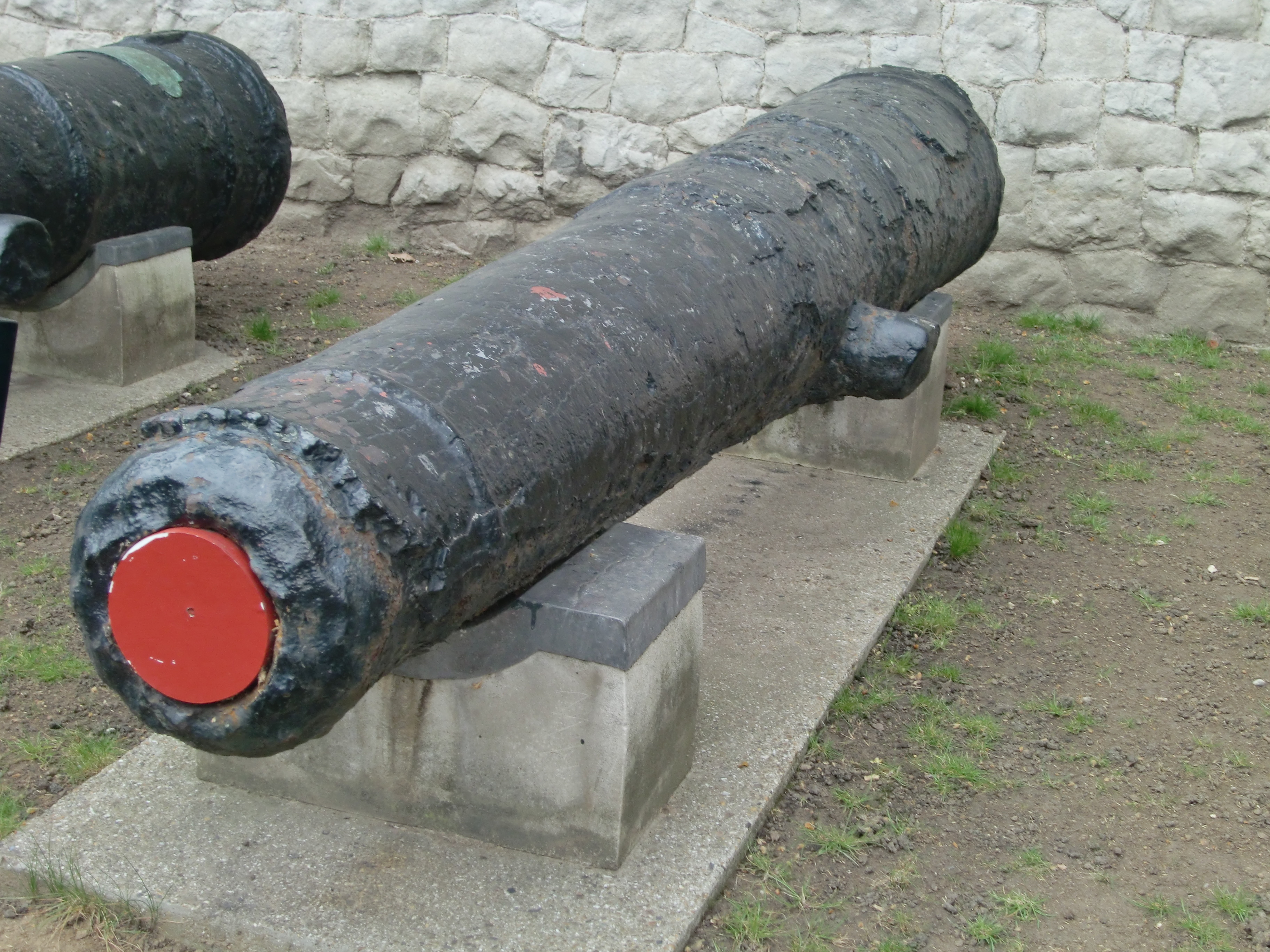 32 pounder, HMS Edgar, Tower of London, corroded due spending decades on the sea bottom